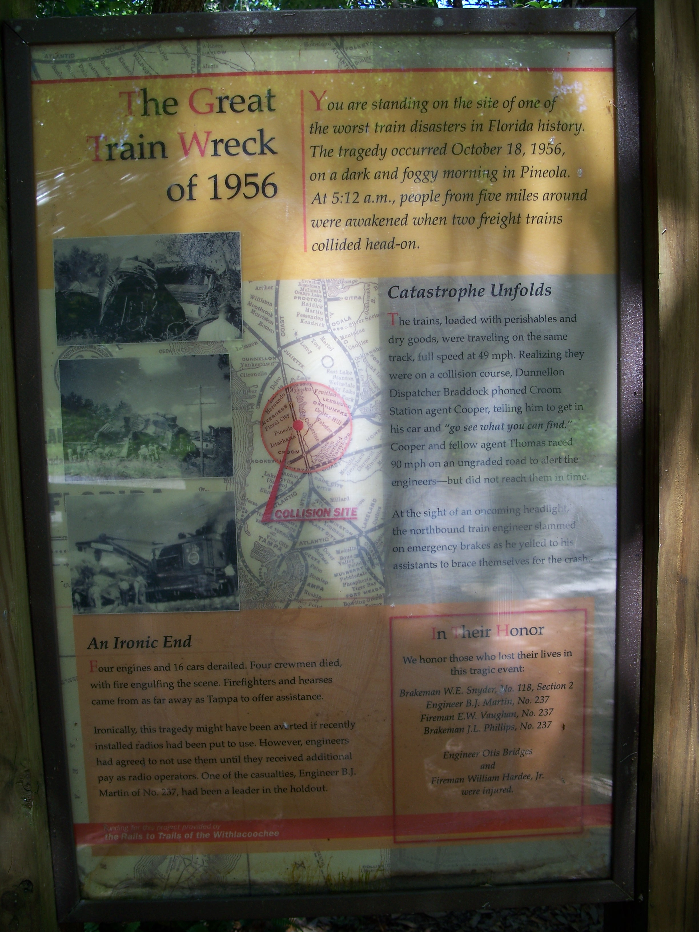 This is a photo of a sign on the Withlacoochee State Trail describing a train wreck that happened on October 18, 1956. The trail follows the path of the old railroad tracks. The sign is located at the spot where the collision occurred.